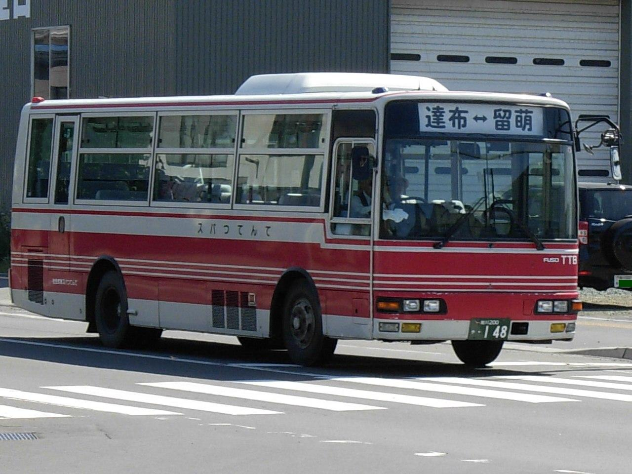 A bus of Tentetsu_bus